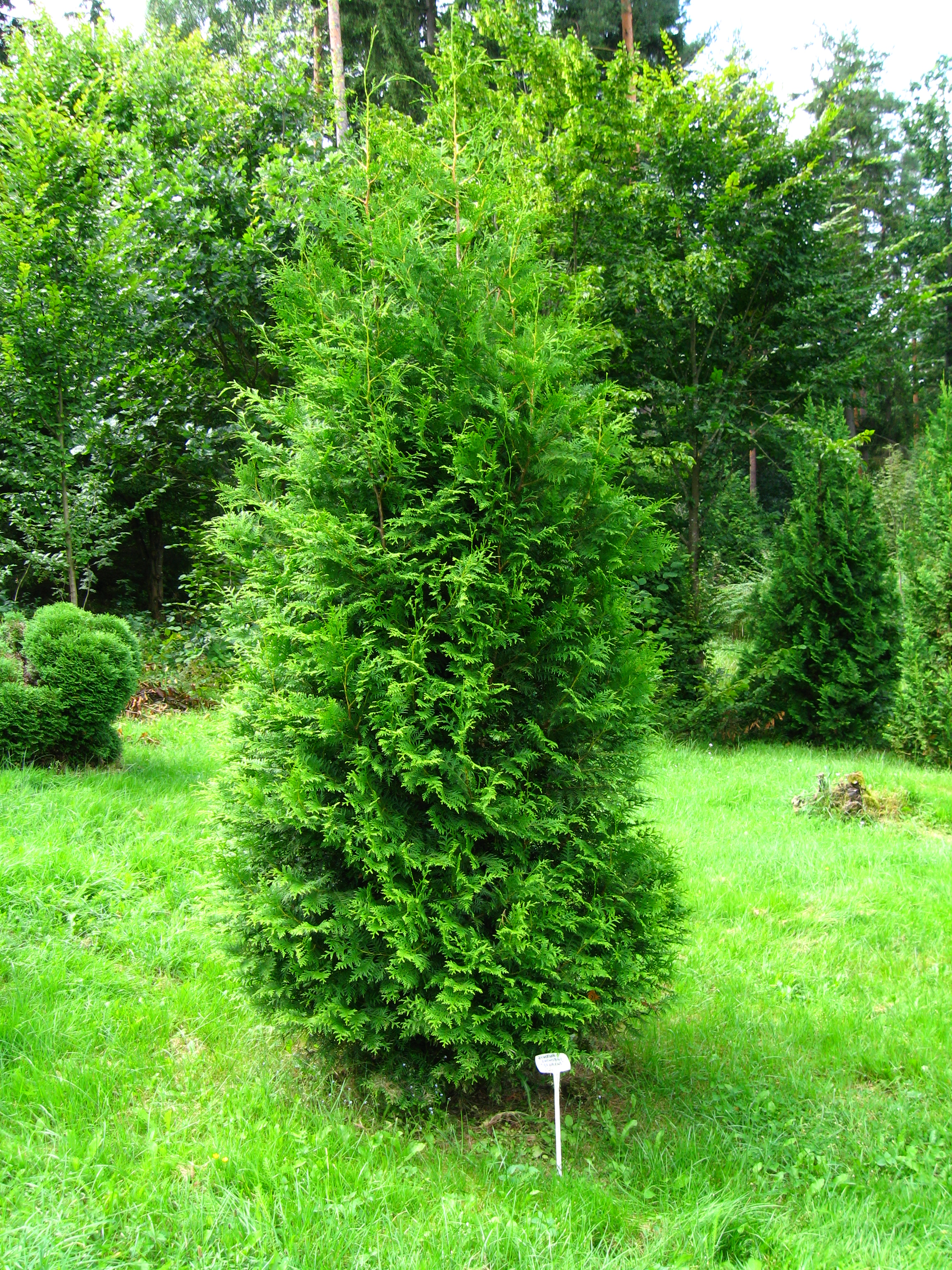 Northern Whitecedar var. Brabant (Thuja occidentalis 'Brabant')